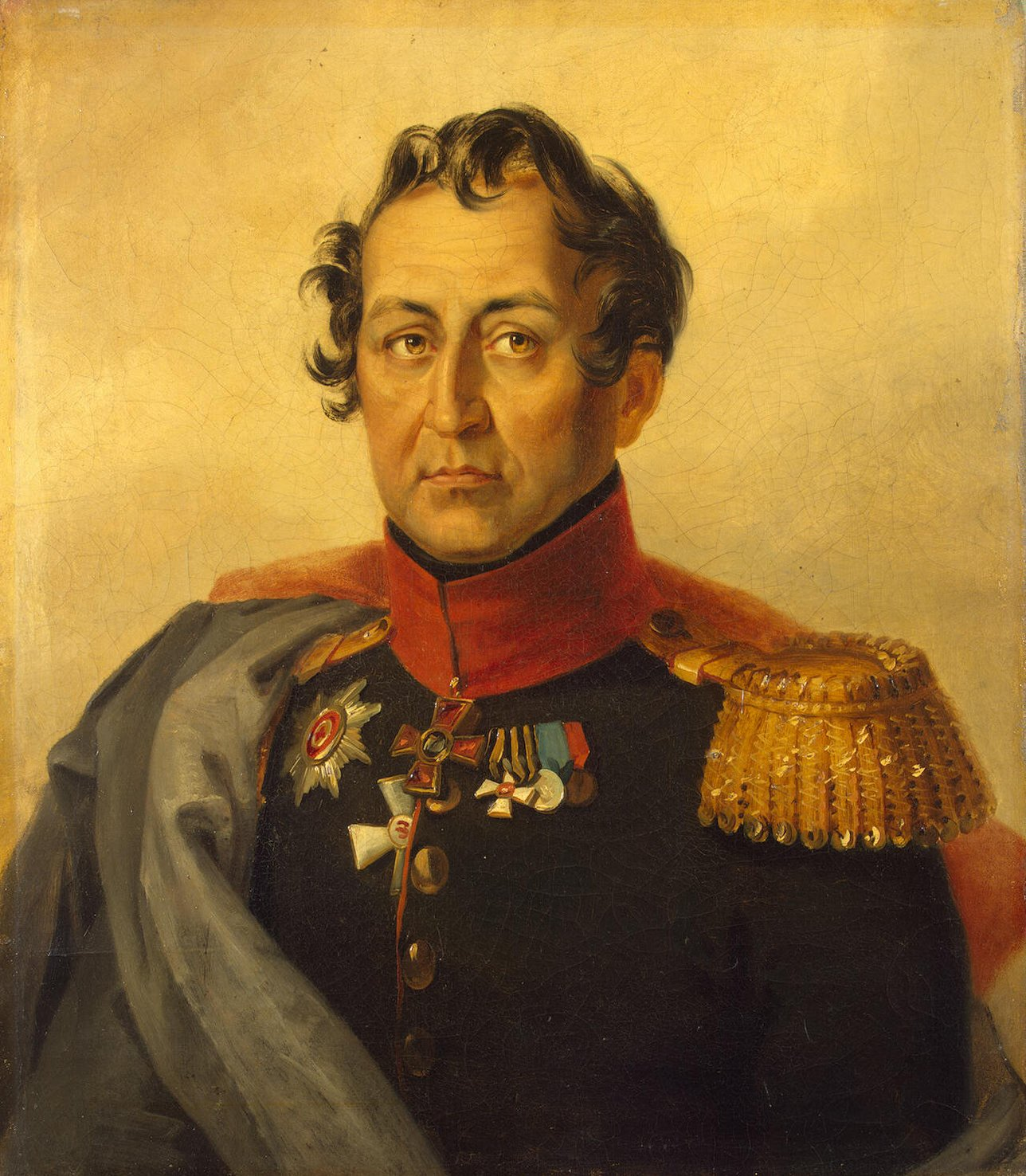 Alexandr Ivanovich Talyzin 2-nd (1777 – 31.08.1847) russian general